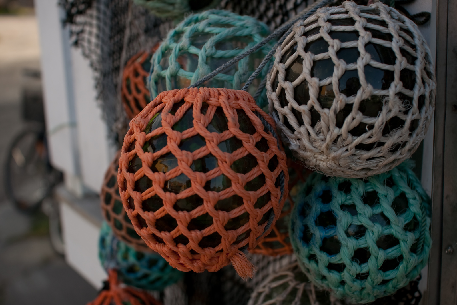 Fishing net float